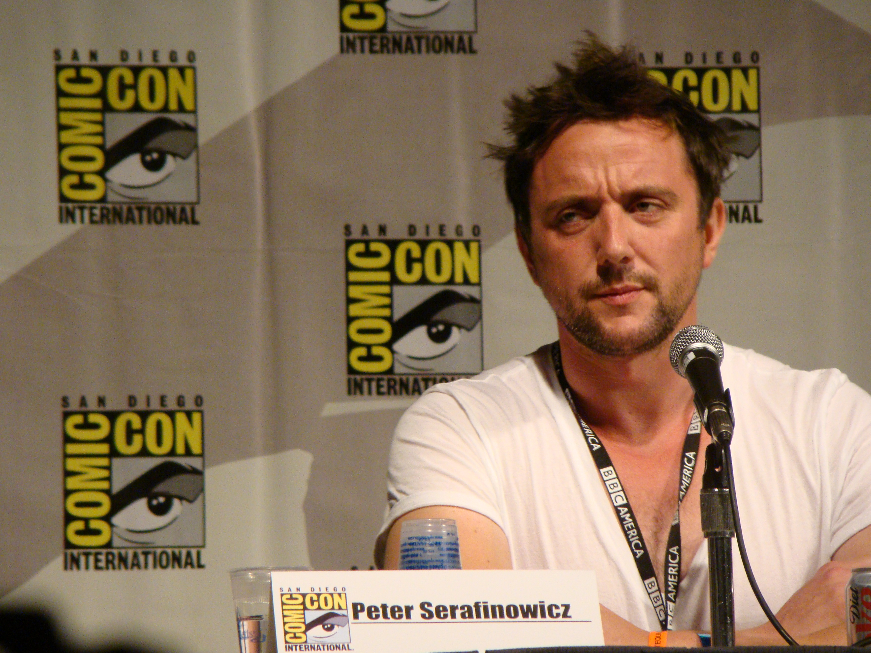 Peter Serafinowicz at the July 22, 2010 Look Around You Comic-Con panel.